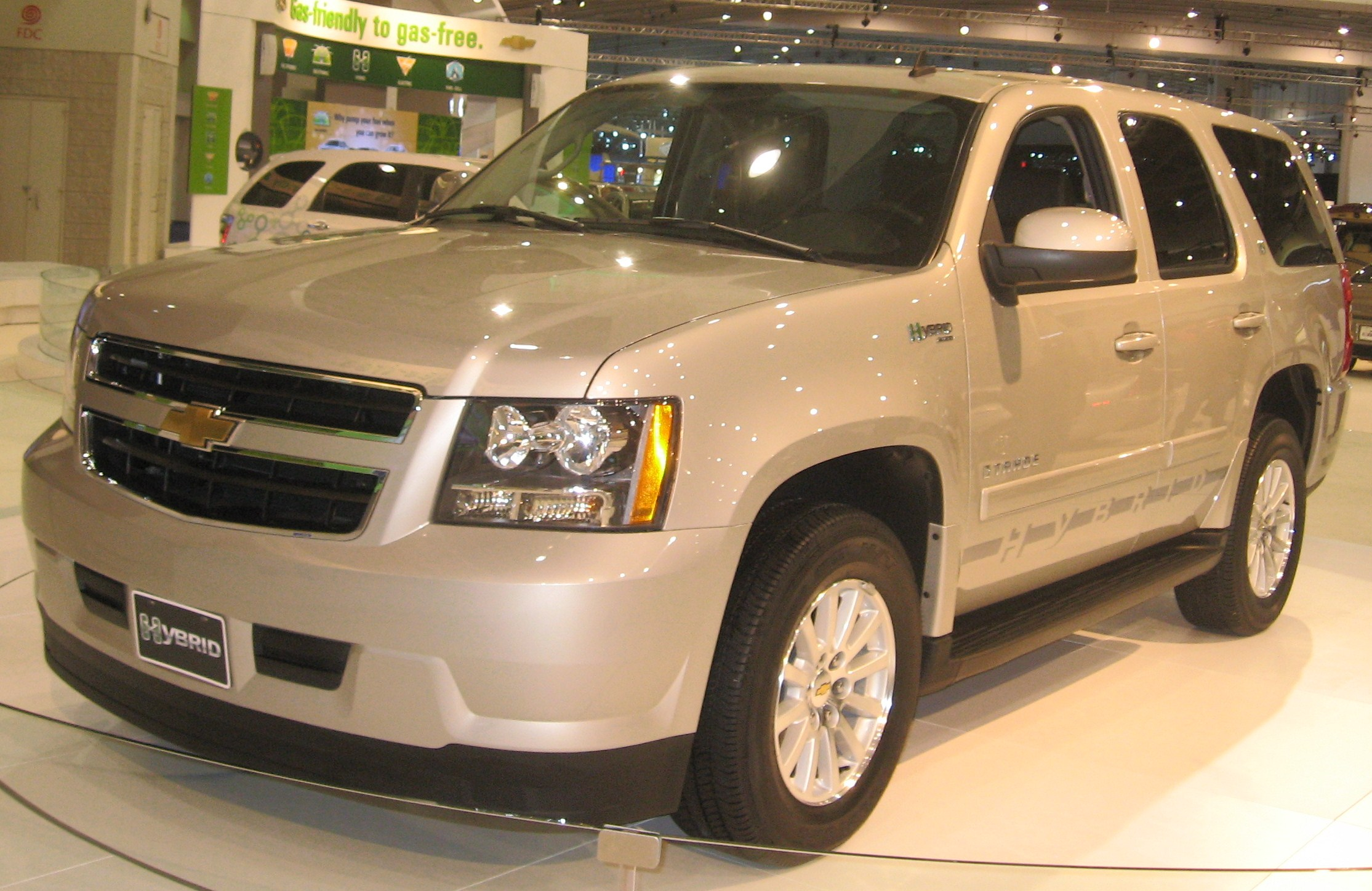 Chevrolet Tahoe photographed at the 2008 Washington DC Auto Show.